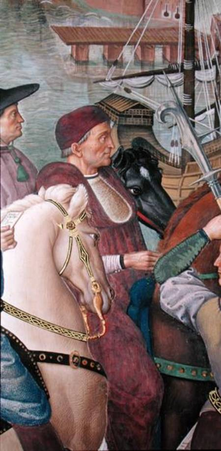 Cardinal Domenico Capranica. Detail from "Aeneas Sylvius Piccolomini (1405-64) Journeys to the Council of Basel" ([File:Sienne Duomo bibliotheque orage.JPG])